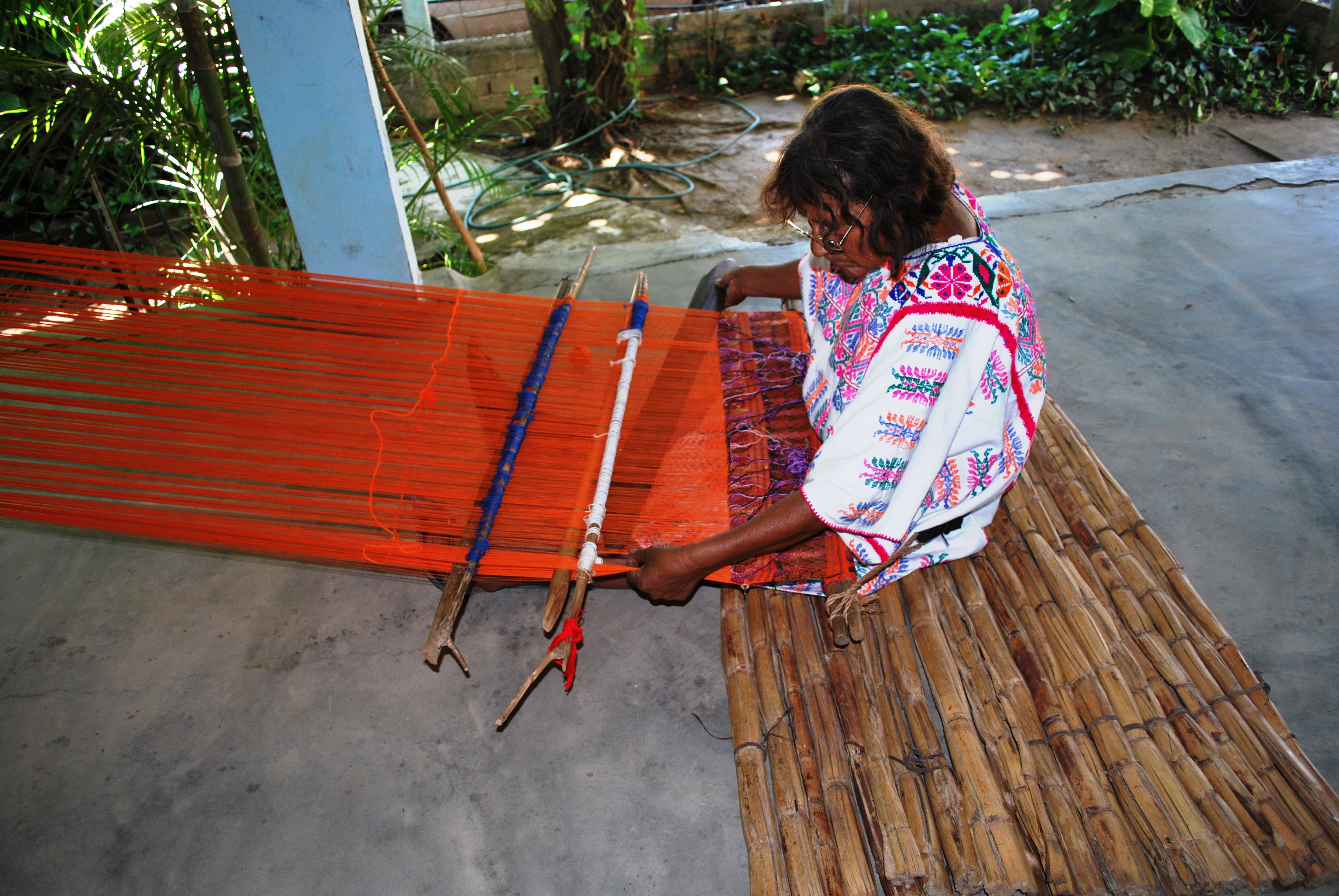 Amuzgo woman weaving rebozo in Xochistlahuaca, Guerrero